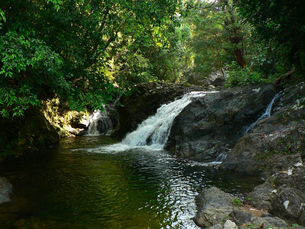 Sebat Waterfall, Sarawak